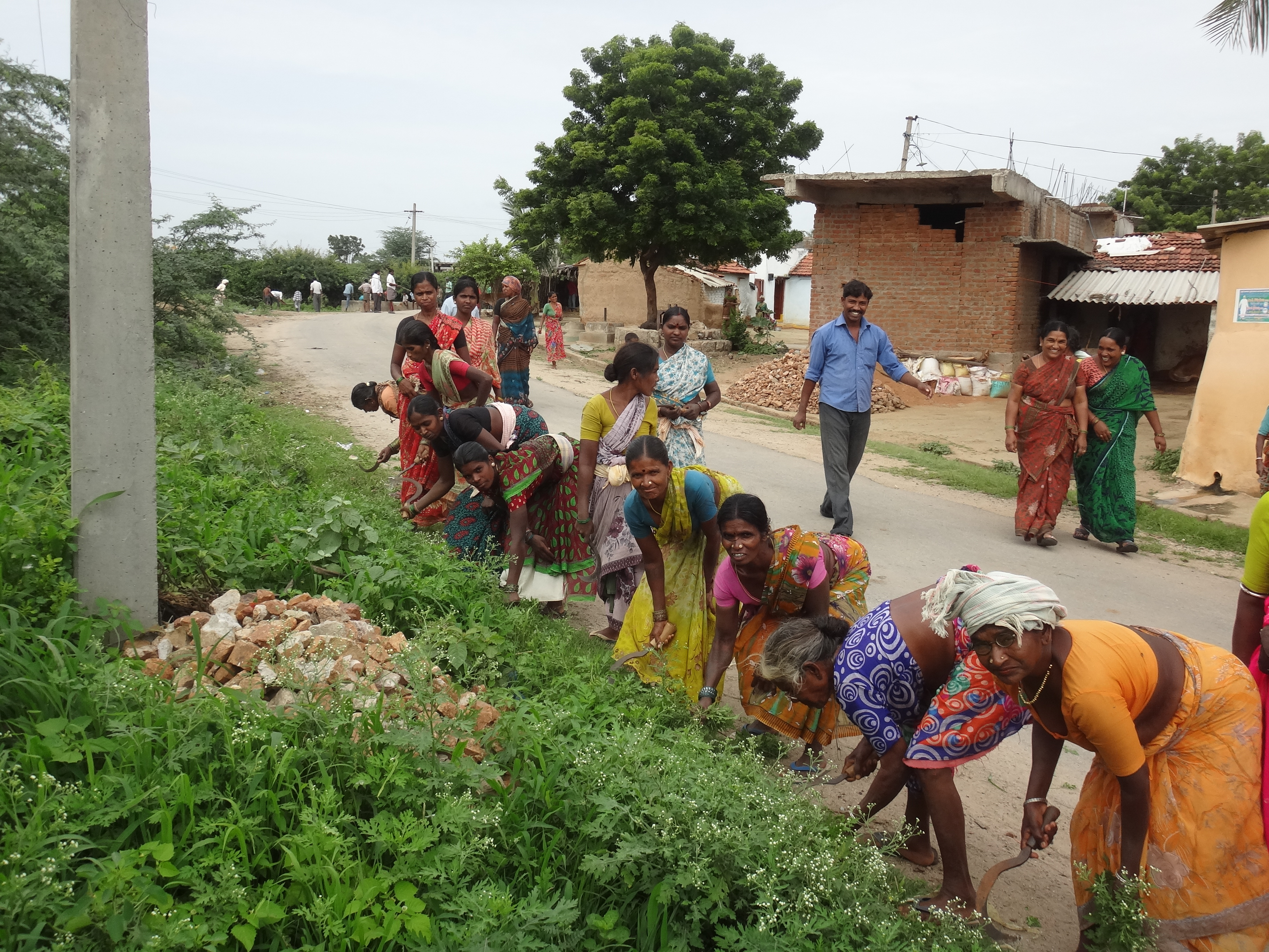 Shramadhanam by the villagers, an initiative to make the village a great place to live